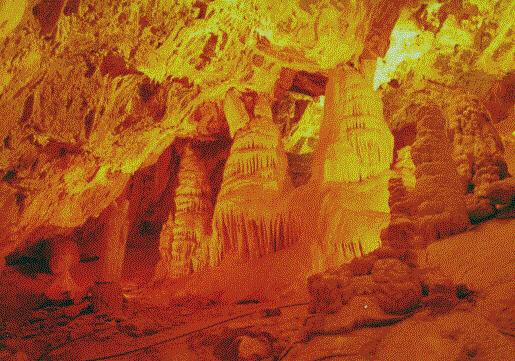 Minnetonka cave in Caribou-Targhee National Forest, Idaho, United States